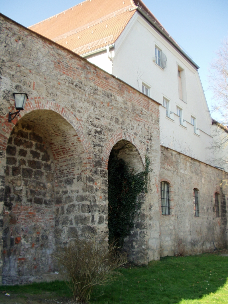 Mühldorf am Inn, stretch of the city walls on Stadtwall with the Haberkasten (former municipal granary, now community hall for cultural events) in background.